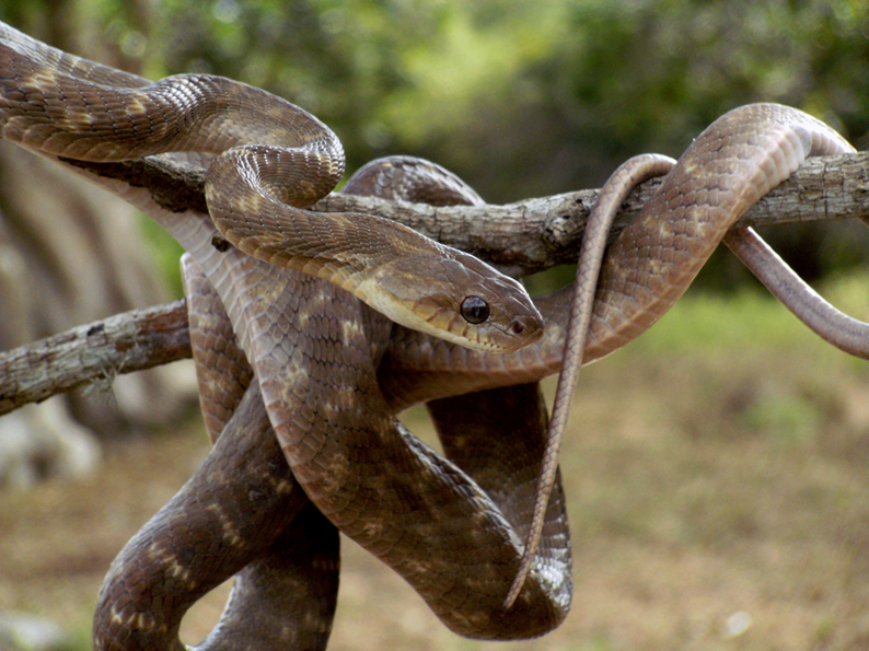 Forsten's Cat Snake (Boiga forsteni). We found this wonderful snake at Yala National Park, Sri Lanka.